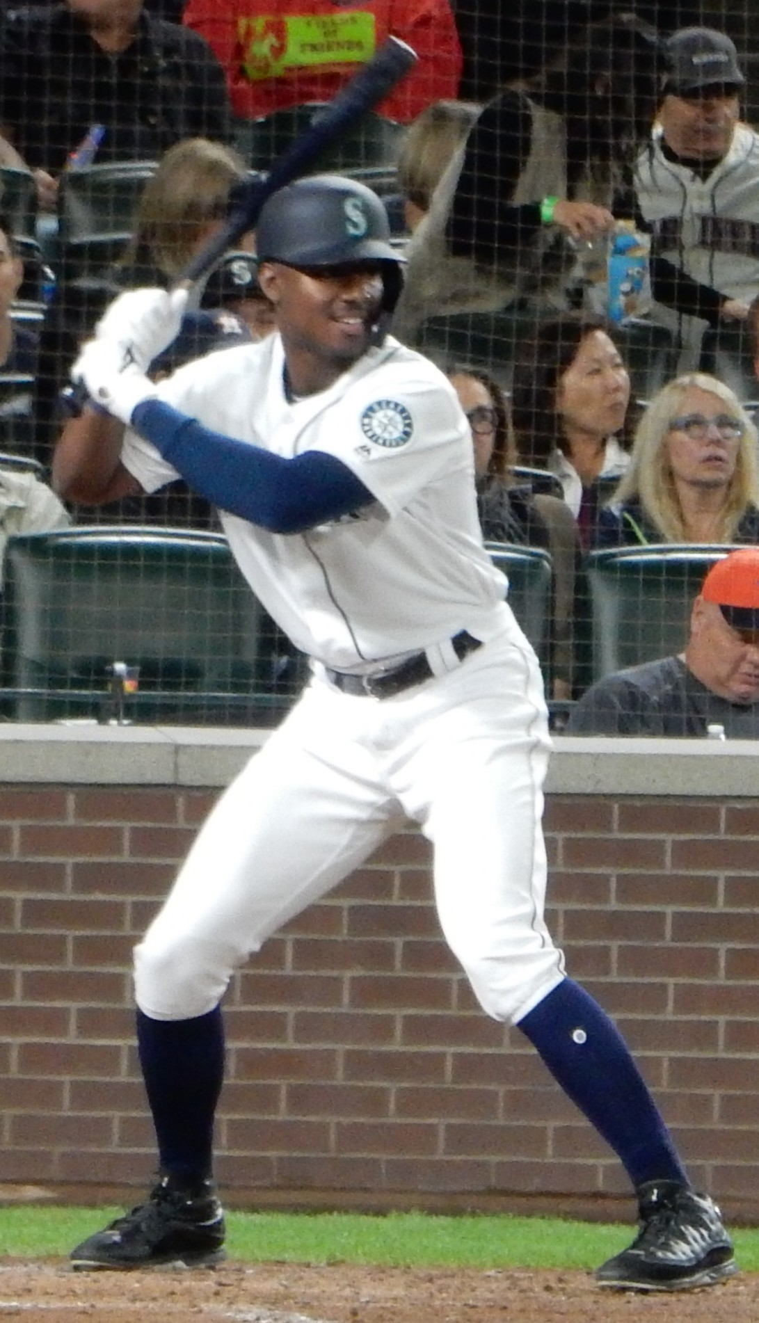 Kyle Lewis batting against the Houston Astros